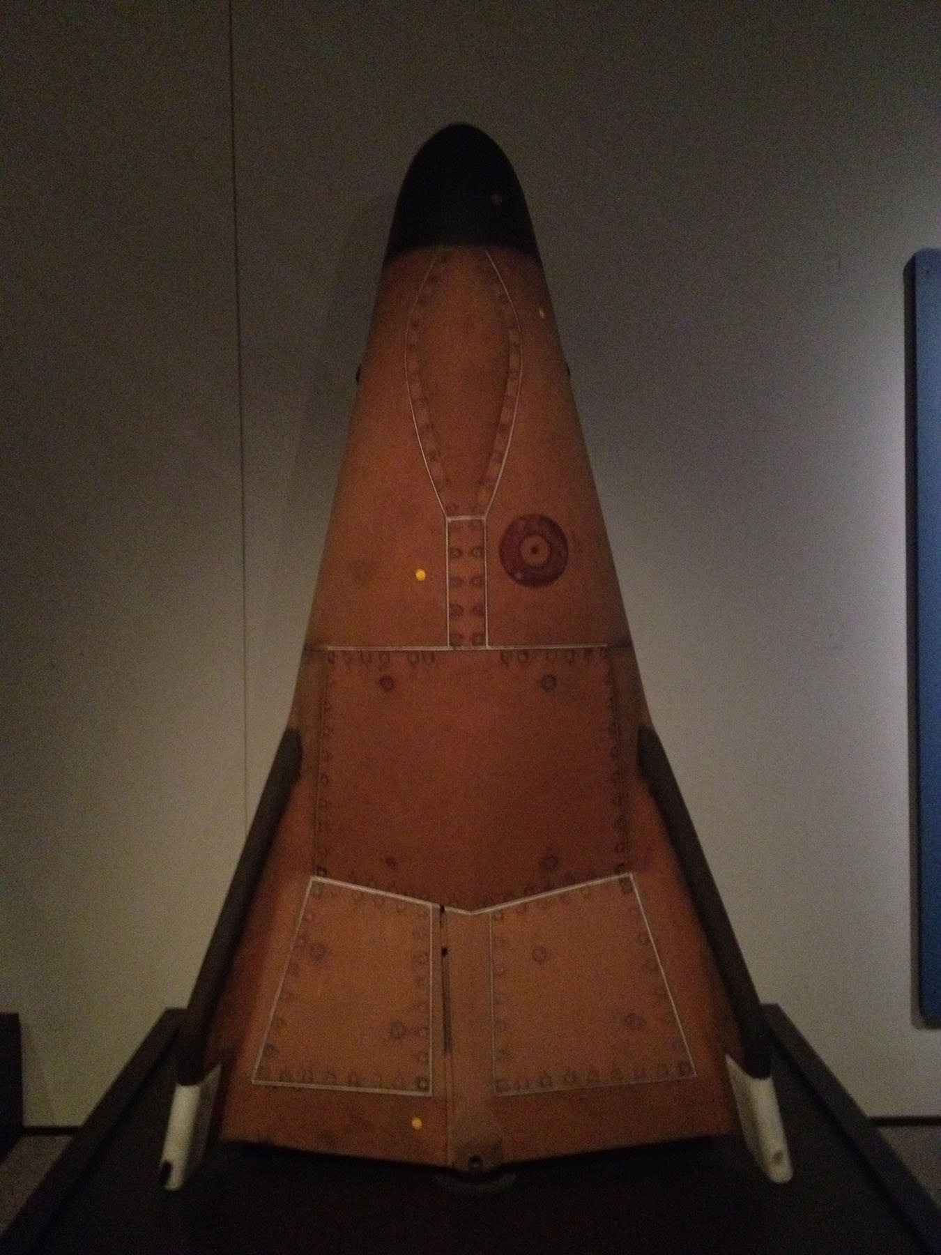 Top view of a X-23A PRIME at National Museum of the United States Air Force